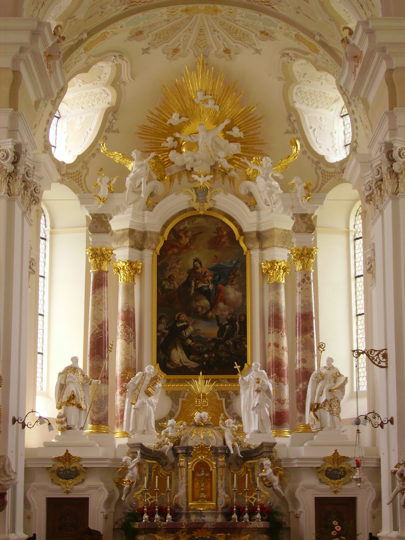 High Altar of Sießen Monastery's Church St. Martin, Bad Saulgau